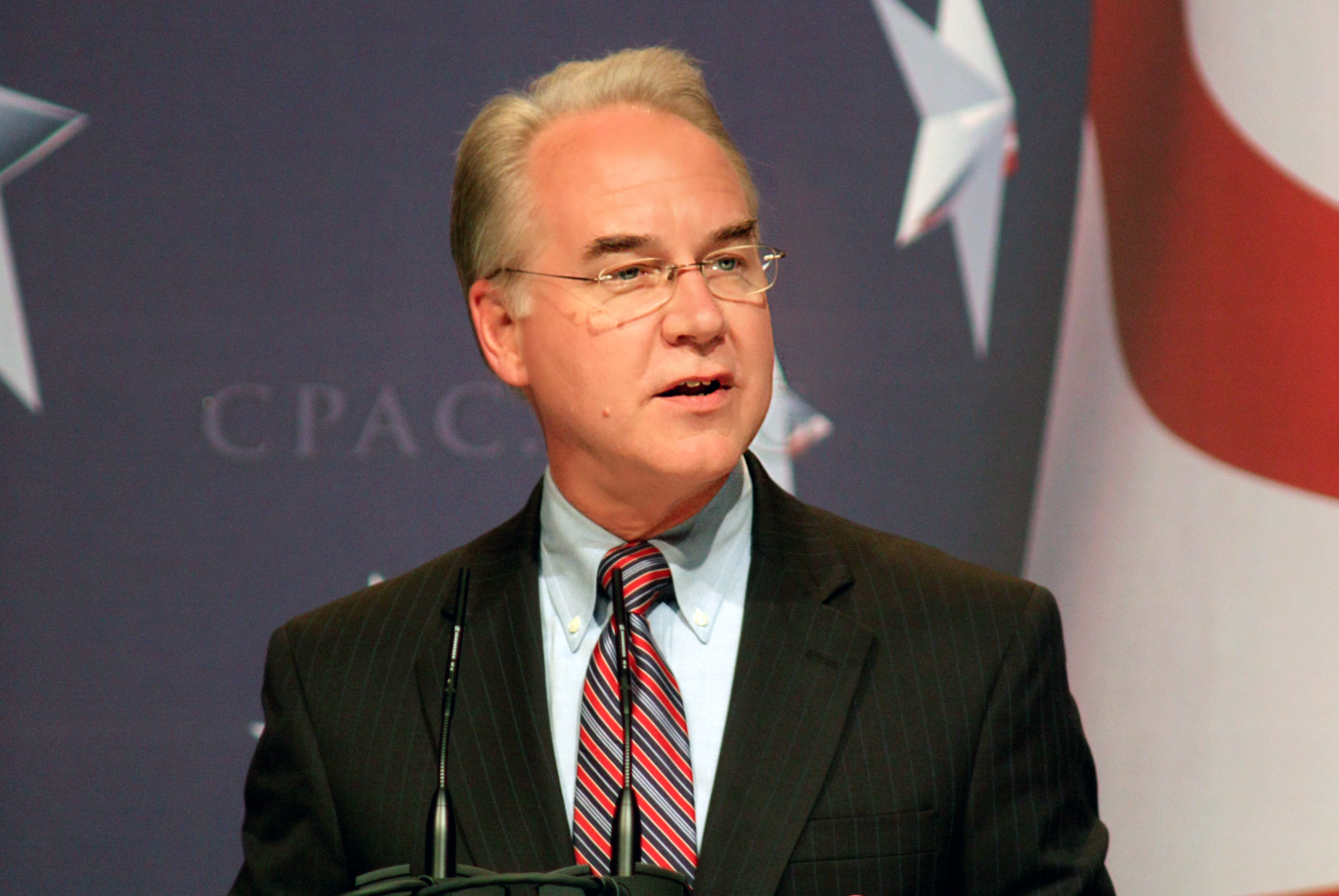 at D.C.